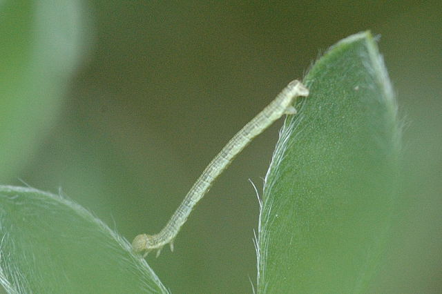 Picture taken in Commanster, Belgian High Ardennes . Species: Chesias legatella caterpillar